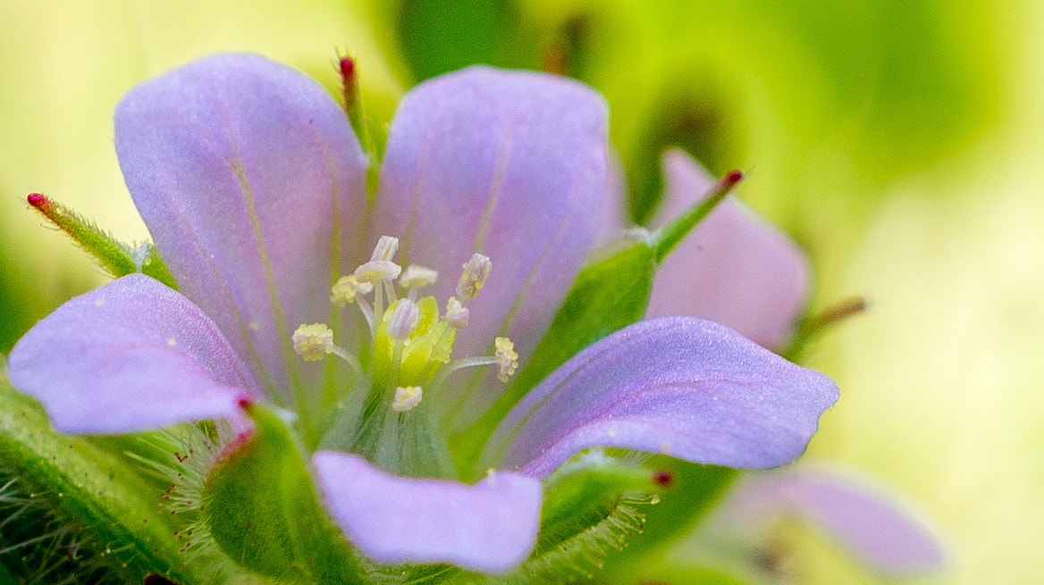 500px provided description: ???????(???????Geranium carolinianum)?????????????????????????????????????????????????????????????????????????3?5?????????????????????????????????????????????????????? [#macro ,#flower ,#? ,#??? ,#??? ,#?? ,#??? ,#???????]